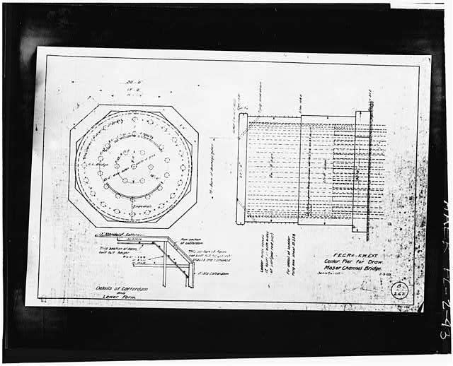 Moser Channel Bridge, details of Center Pier for Draw, 7-3-09 (Dwg B-262). - Seven Mile Bridge, Linking Florida Keys, Marathon, Monroe County, FL--photo of concrete bridge pier from Library of Congress database